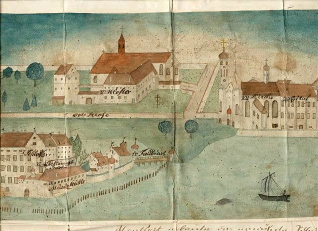 Mint of Langenargen